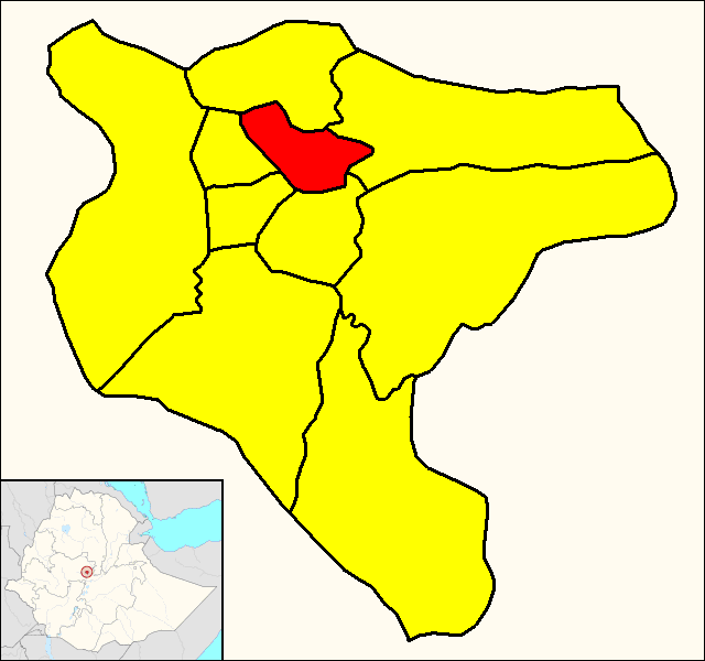 Map of the district (subcity) of Arada (shown in red) within the city of Addis Ababa (yellow).